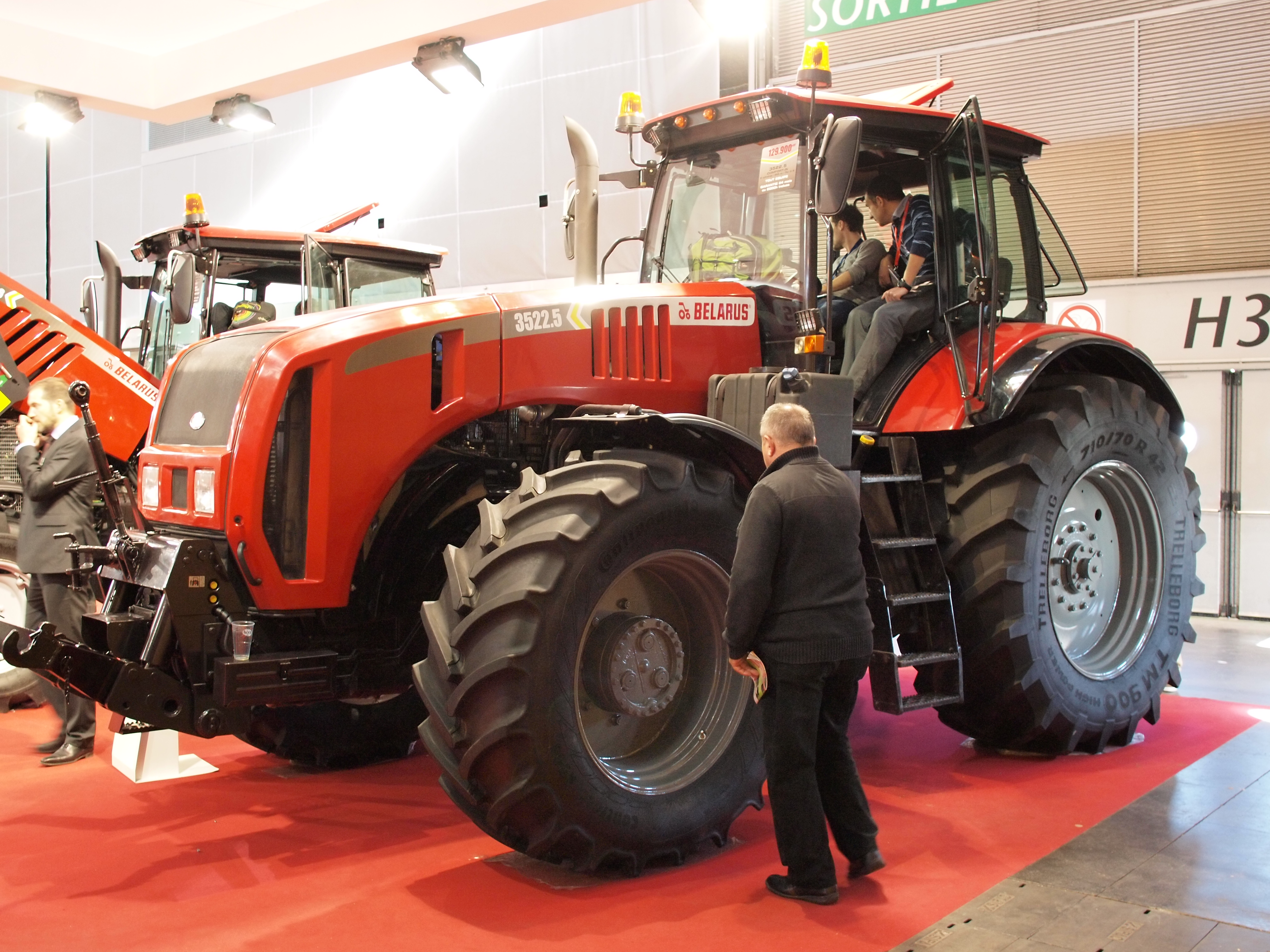 Belarus 3522.5 tractor at SIMA 2015.